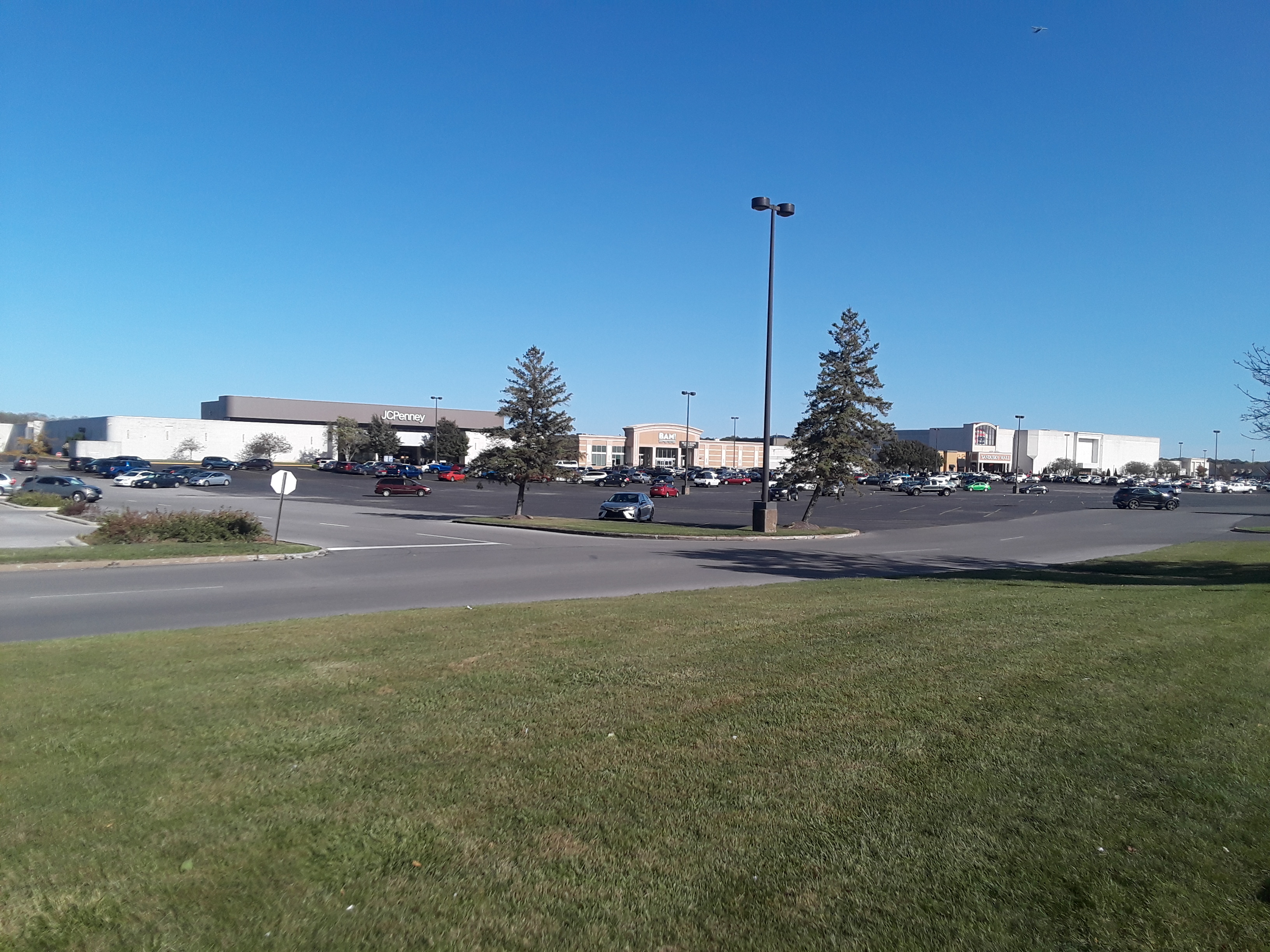 A picture I took from a Mcdonald's parking lot right by the mall.